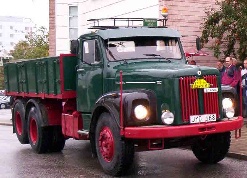 Scania LS110 Truck 1969